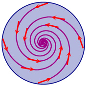 Necessary conditions for Brouwer's fix point theorem (2)